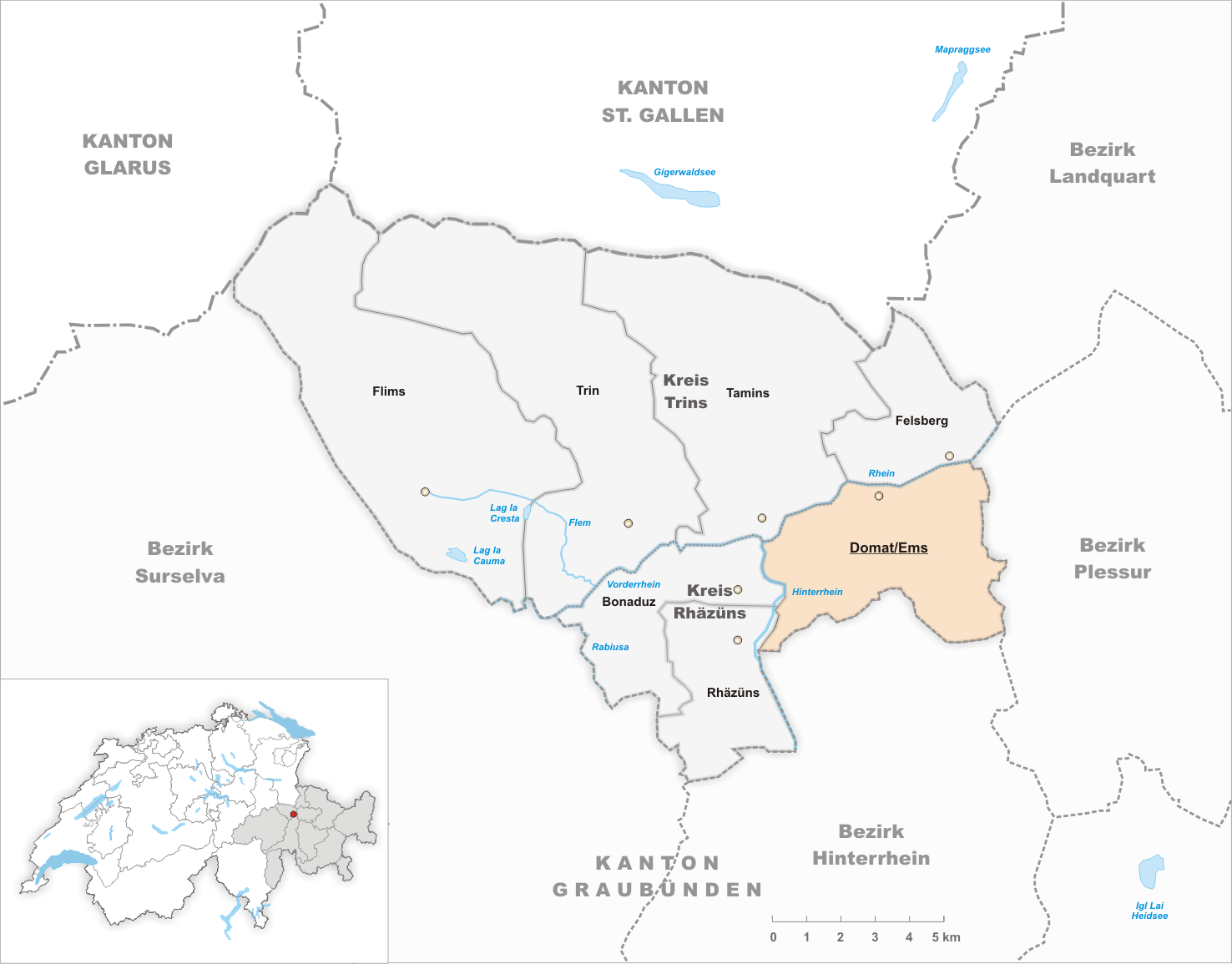 Municipality Domat/Ems